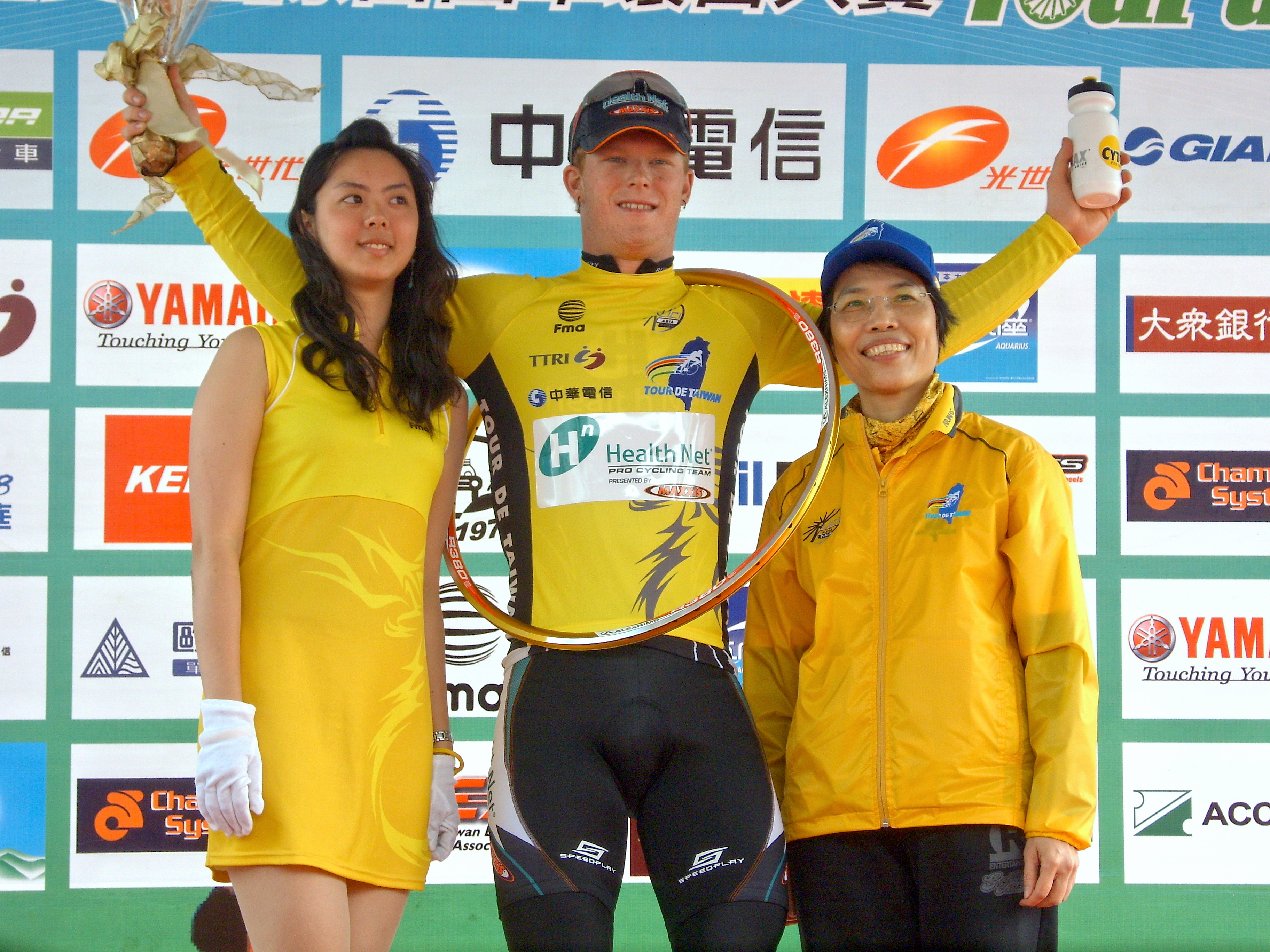 2008 Tour de Taiwan Stage 7: Overall Leader - John Murphy (center).